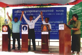 Candidates of the 2003 general elections in Cambodia